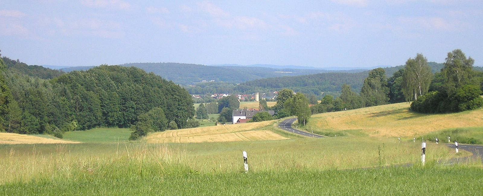 Parking lot near Vorbach (Ebern, Landkreis Haßberge, Lower Franconia, Germany). Looking east to Unterpreppach and Ebern